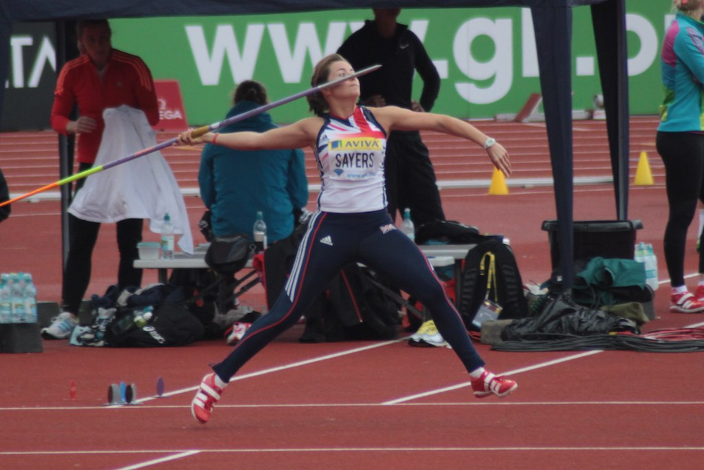 Goldie Sayers setting a new UK javelin record at the Crystal Palace Grad Prix, Diamond League 2012